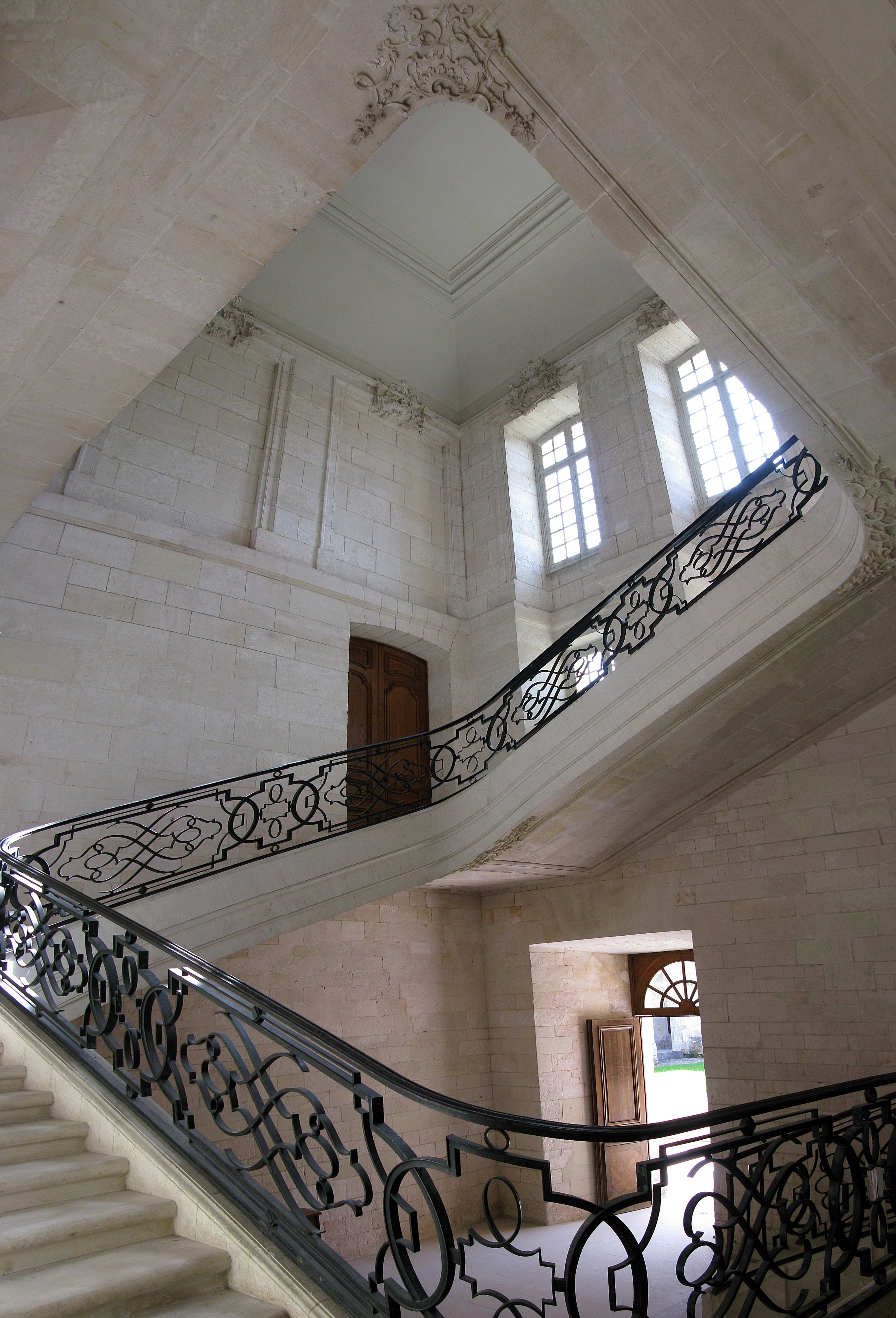 Matins staircase panoramic view in Le Bec Hellouin abbey.